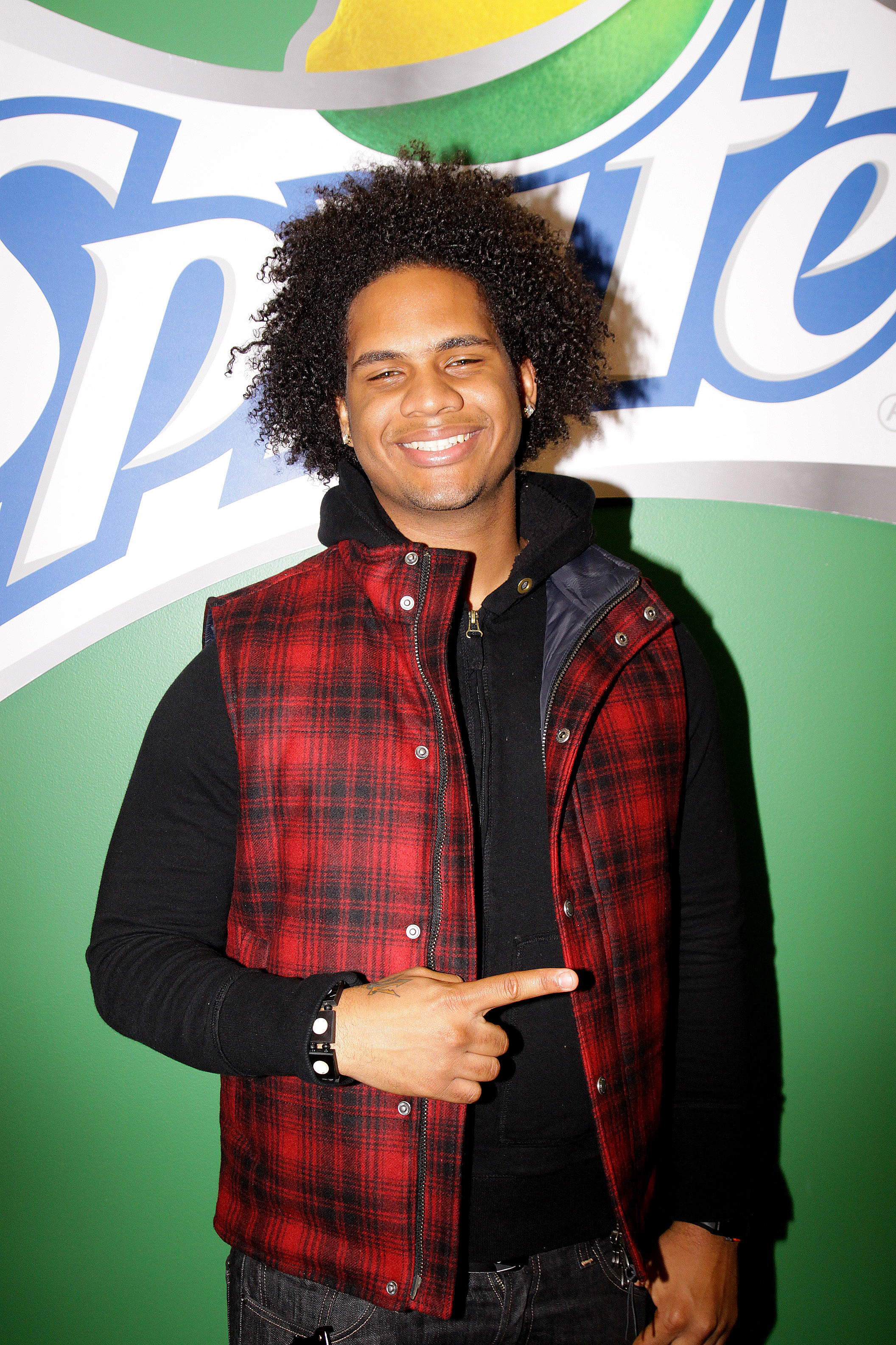 Jaicko poses for a photo at the KISS-FM "Sprite" green room in Chicago(photo by raymond boyd).